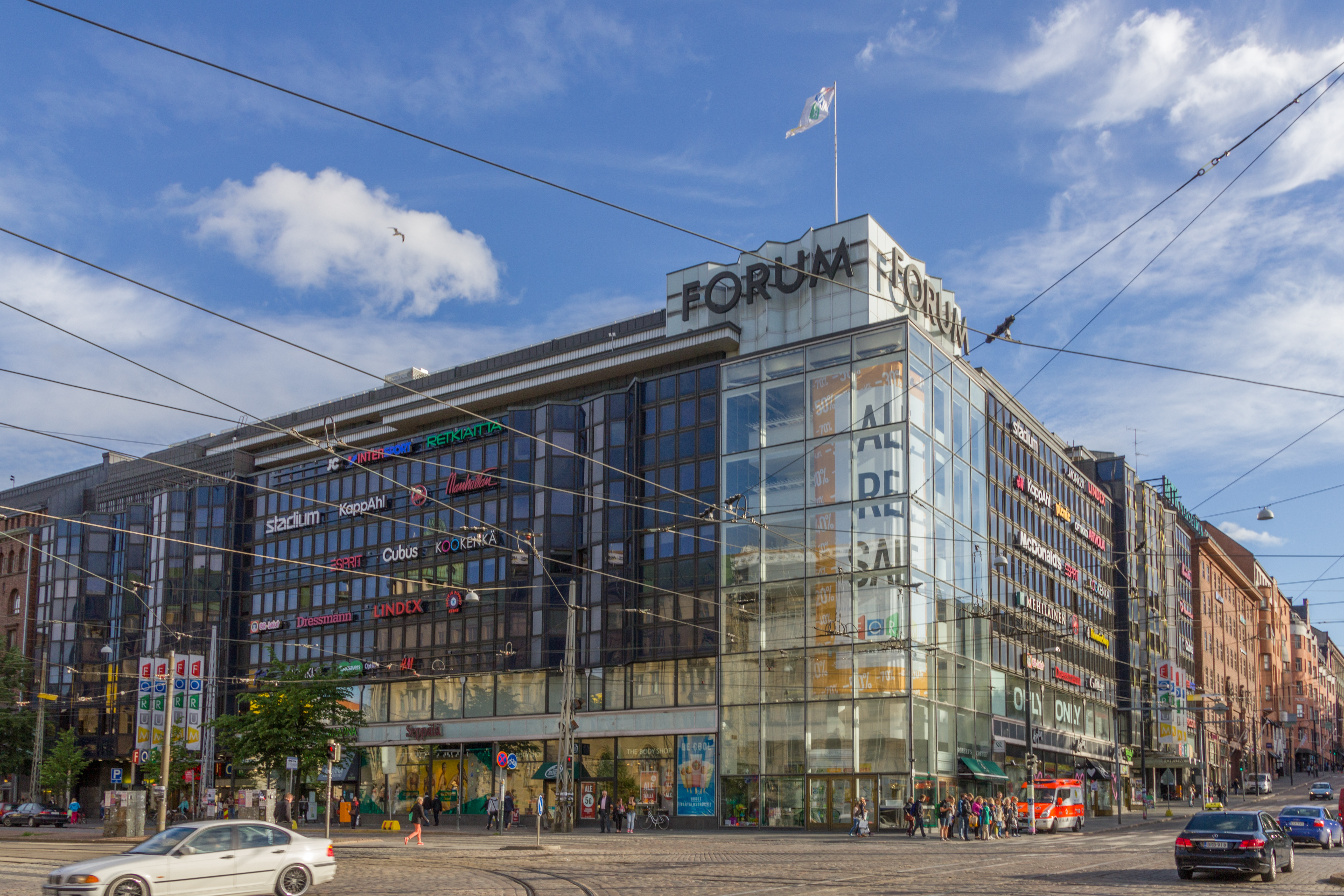 Forum shopping center in helsinki.